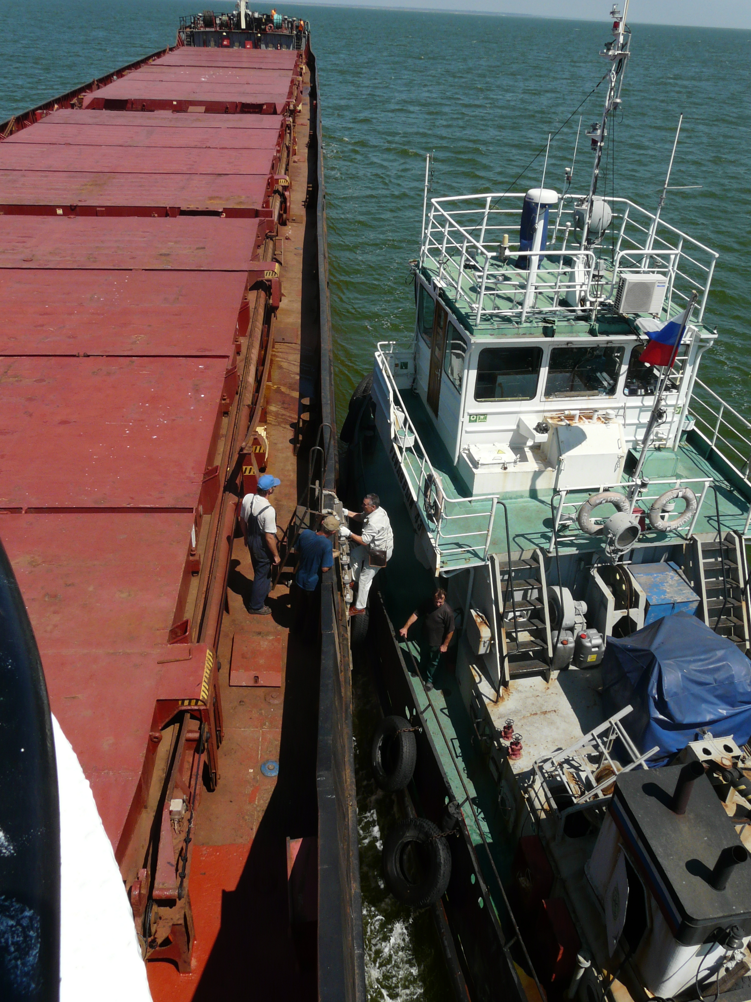 Pilot is using stardoard side pilot ladder. Aproaching Yesk port.